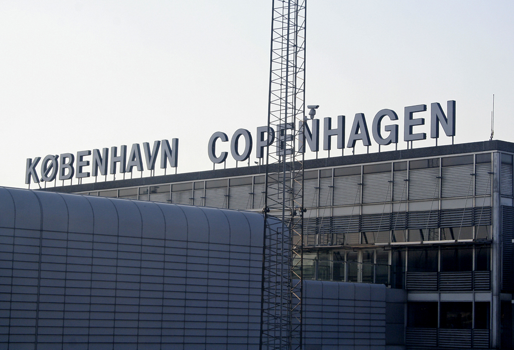 This photo is a view from the apron area at airside. The signs are on top of the building between Terminal 2 and 3. This photo was taken during deboarding a plane at July 7th 2005 by John Paul Solis, uploaded for public domain use on